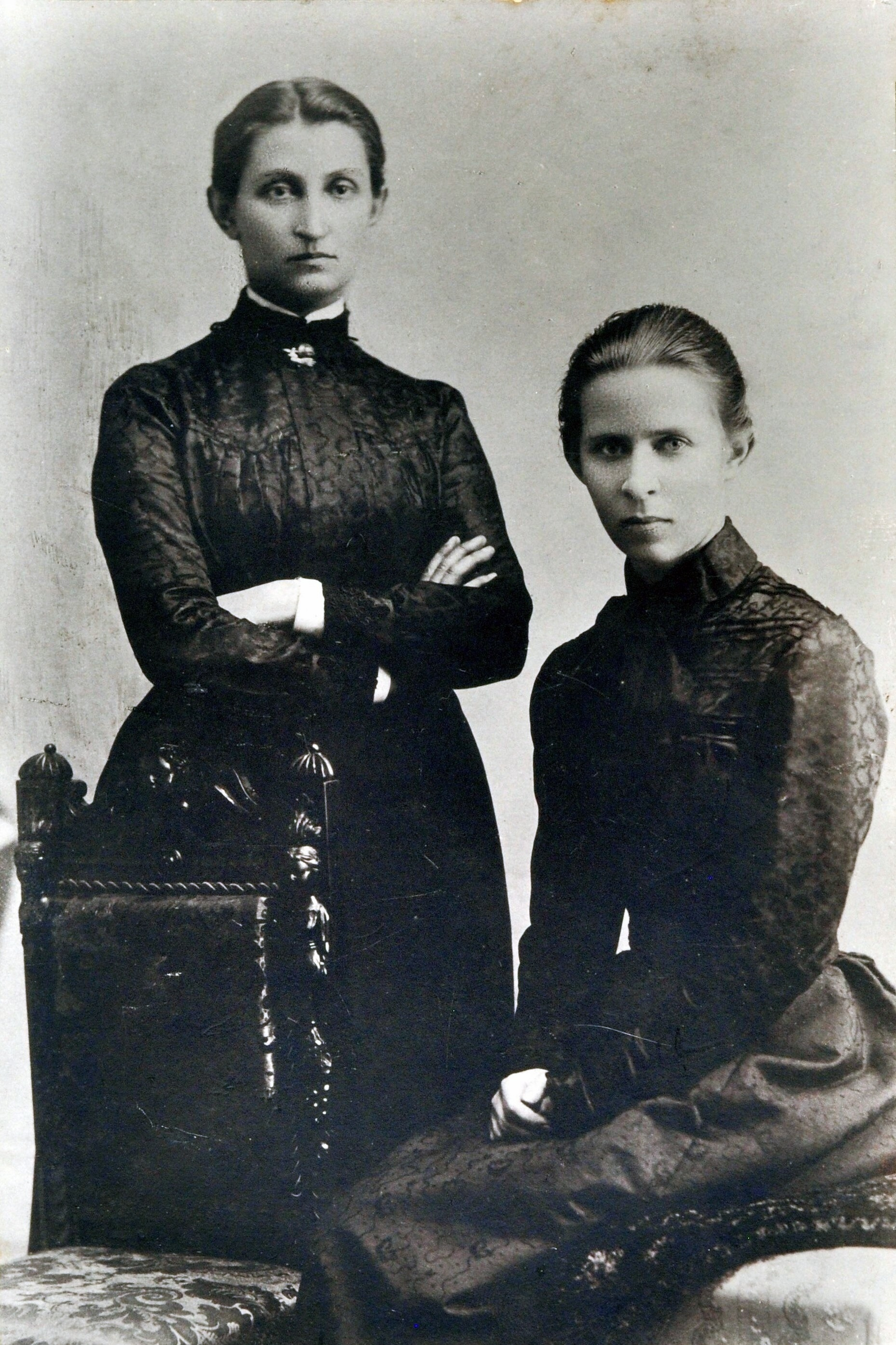 Olha Kobylyanska